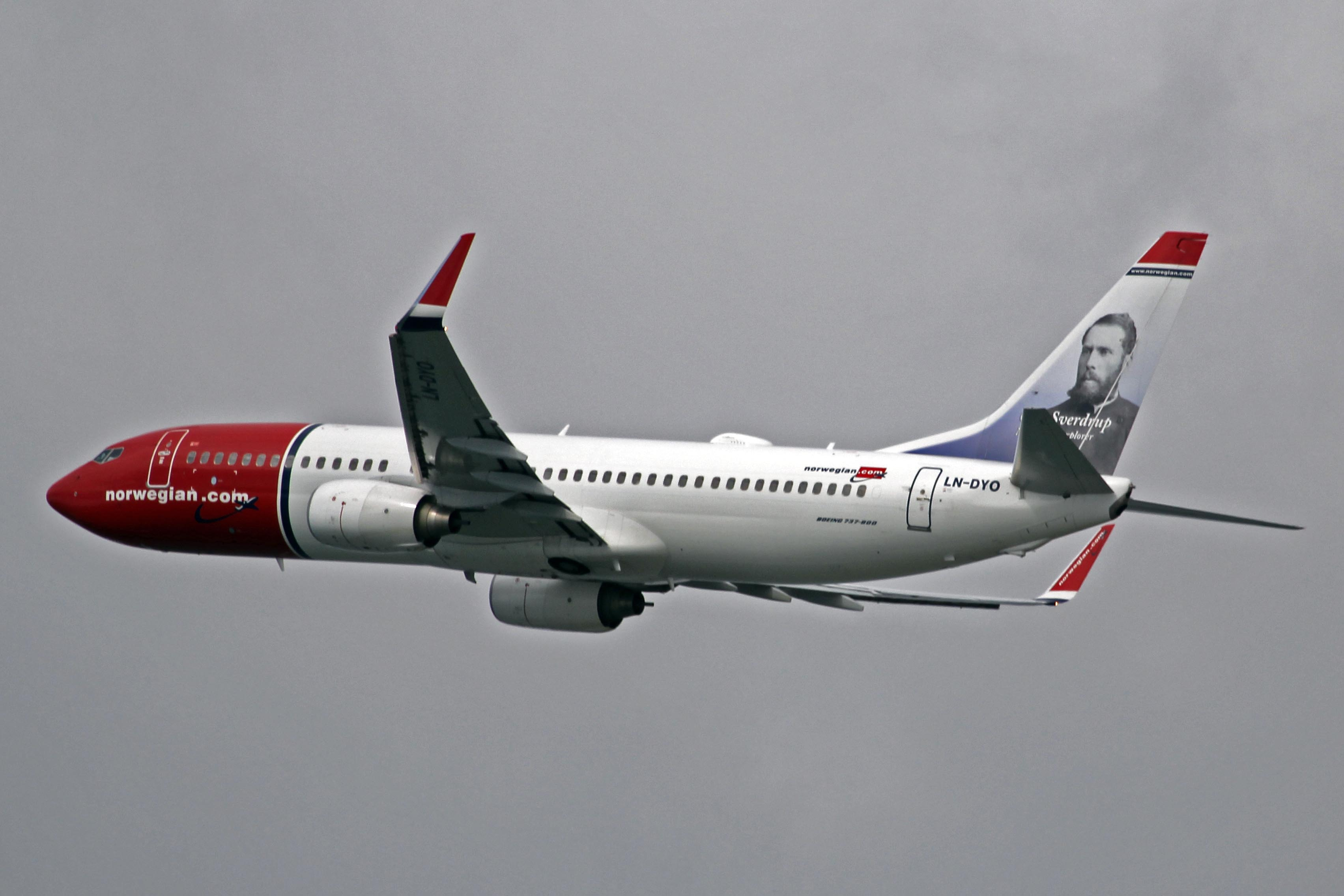 'Otto Sverdrup, Norwegian Explorer' tail c/scheme